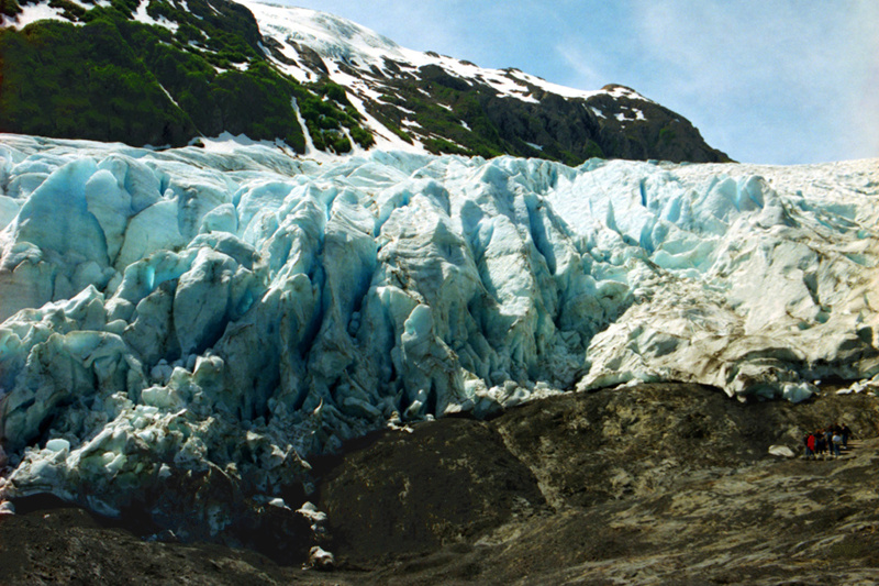 Kenai Fjords National Park, Alaska, USA, Exit Glacier. For scale, note the red-coated figure and others near right edge.